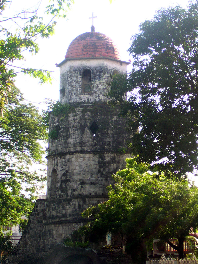 Dumaguete Belfry in Dumaguete City along Perdices Street